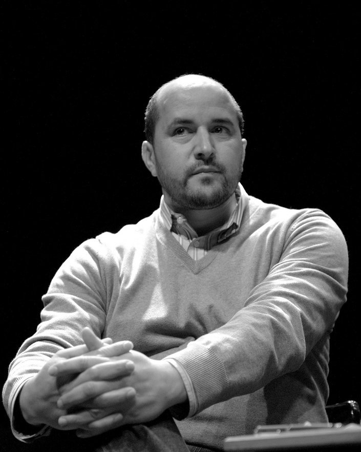 Ahmed Marcouch